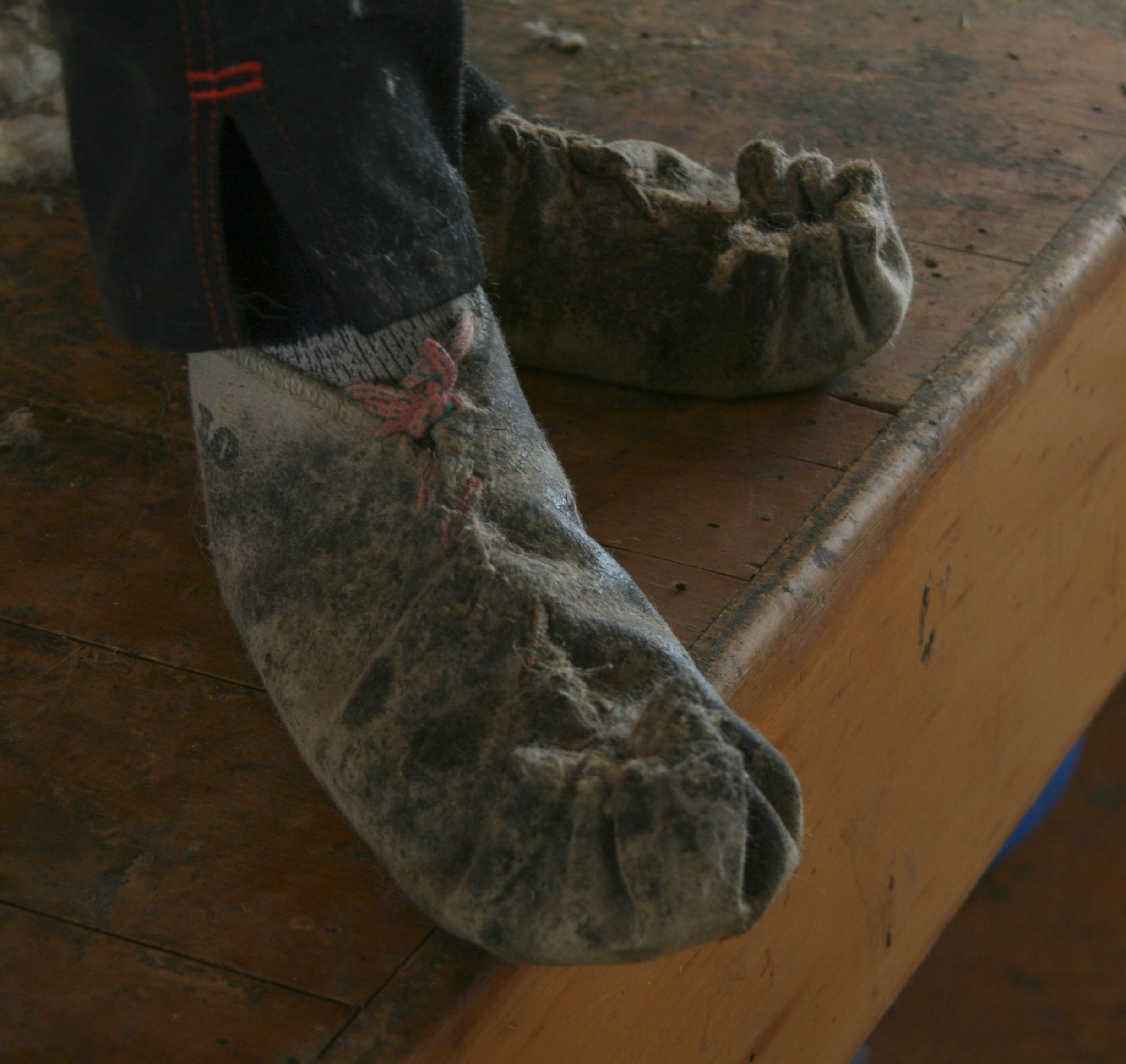 Sheep shearer's moccasins - image taken on South Island, New Zealand